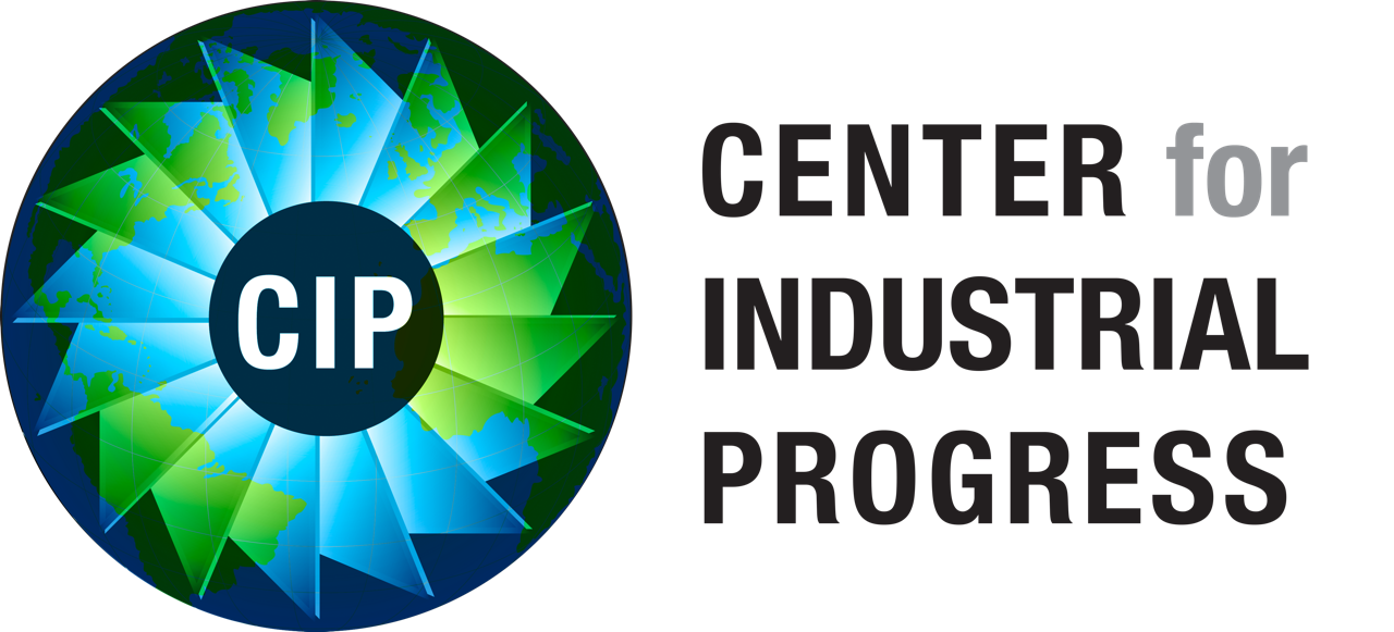 Center for Industrial Progress (CIP) Logo